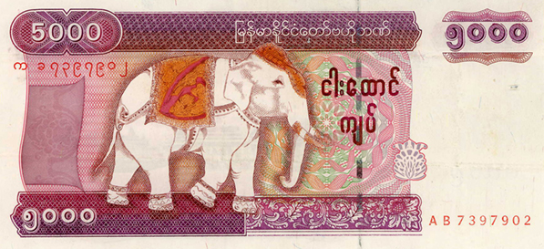 kyat 5000f